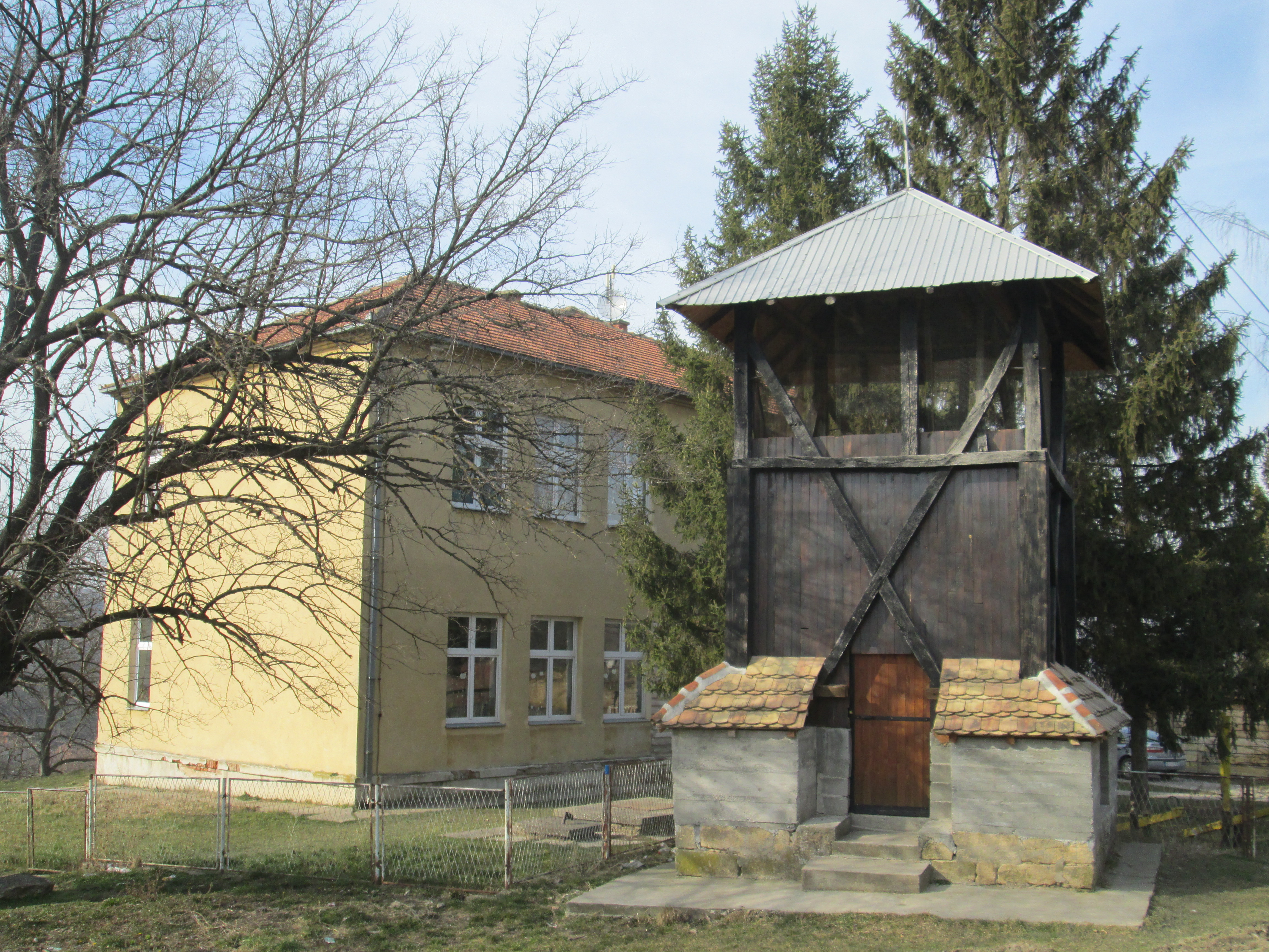 Primary school "Momčilo Živojinović" and wooden belfry, Šepšin Српски (ћирилица): Основна школа „Момчило Живојиновић“ и дрвени звоник, Шепшин